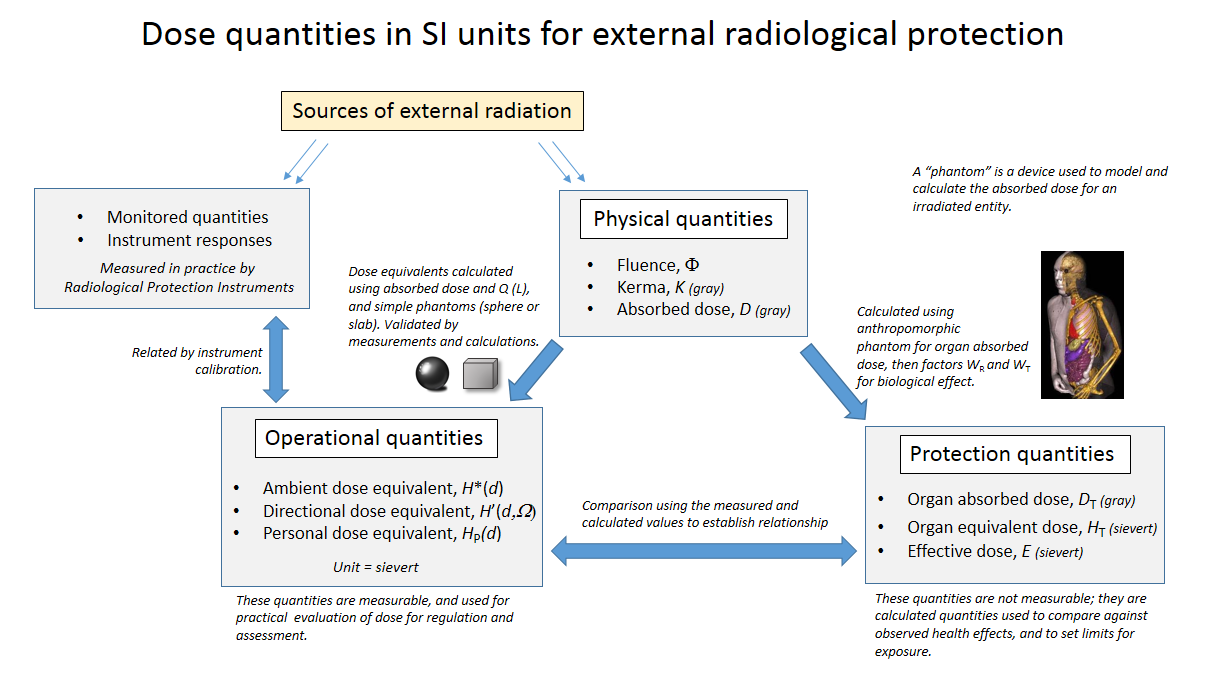 Representation of the main dose quantities used in radiation protection based partly on Mattson and Soderberg: "Dose Quantities and Units for Radiation", Ch2 of "Radiation protection in nuclear medicine" Springer Verlag 2013. That in turn is based on ICRU report 57. This final graphic also incorporates an image by Rensselaer Polytechnic Institute entitled VIP-Man phantom developed by Dr. Xu and team at Rensselaer Polytechnic Institute in Troy, NY published in Wikimedia commons ref - Voxel Phantom - Visual Photographic Man (VIP-Man).jpg the purpose being to introduce the concept of a anthropomorphic phantom by using an image.